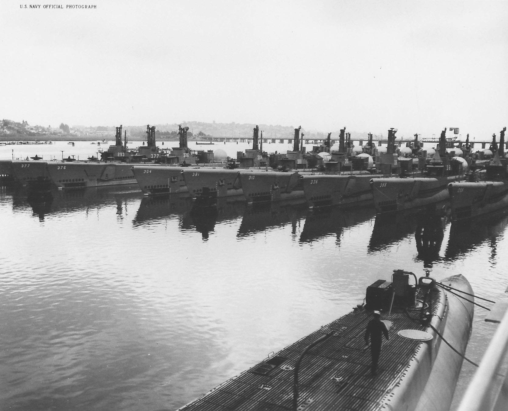 Submarines at Mare Island Reserve Fleet on 28 September 1950. Left to right: Dragonet (SS-293), Menhaden (SS-377), Mapiro (SS-376), Seahorse (SS-304), Sand Lance (SS-381), Batfish (SS-310), Capitaine (SS-336), Pipefish (SS-388) and Manta (SS-299).